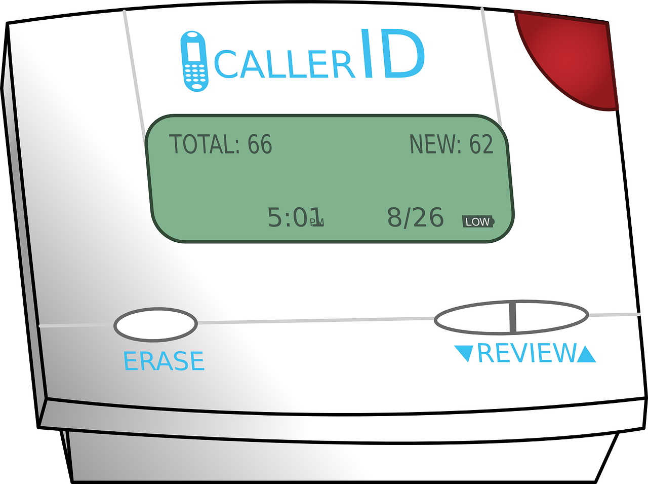 Caller ID.